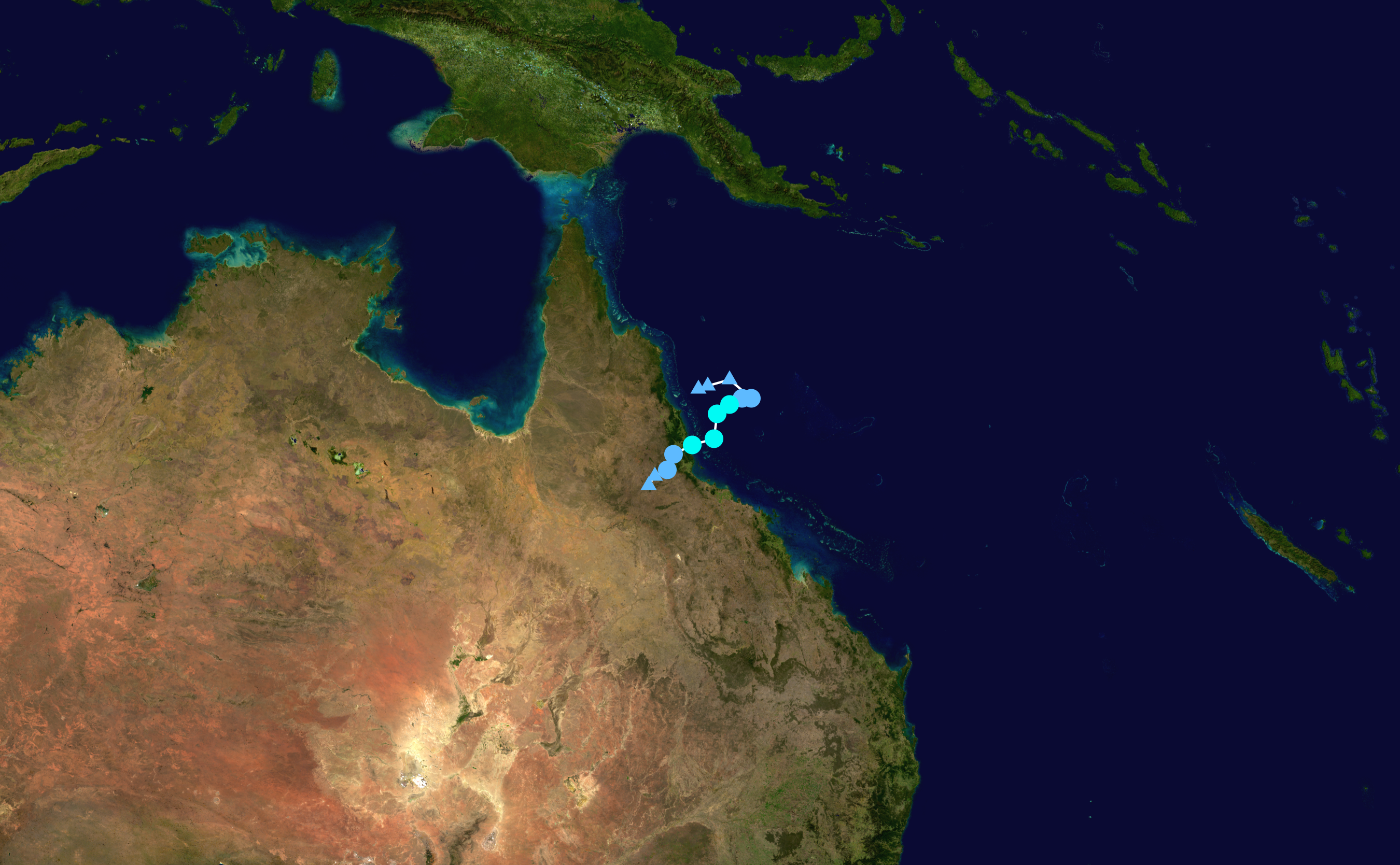 Track map of Tropical Cyclone Ellie of the 2008-09 Australian region cyclone season. The points show the location of the storm at 6-hour intervals. The colour represents the storm's maximum sustained wind speeds as classified in the Saffir–Simpson scale (see below), and the shape of the data points represent the nature of the storm, according to the legend below. Saffir–Simpson scale Tropical depression≤38 mph≤62 km/h Category 3111–129 mph178–208 km/h Tropical storm39–73 mph63–118 km/h Category 4130–156 mph209–251 km/h Category 174–95 mph119–153 km/h Category 5≥157 mph≥252 km/h Category 296–110 mph154–177 km/h Unknown Storm type Tropical cyclone Subtropical cyclone Extratropical cyclone / Remnant low / Tropical disturbance / Monsoon depression